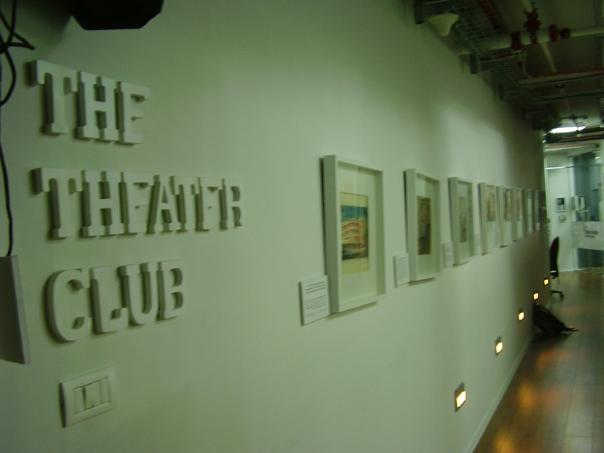 the theater club in tel aviv